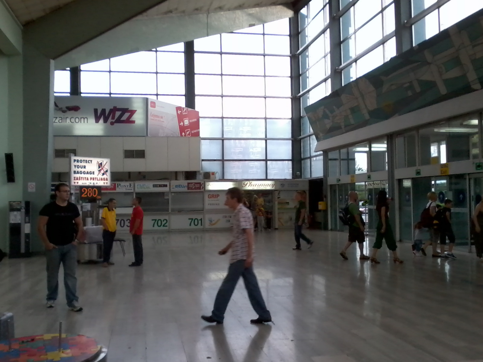 Interior of Belgrade Nikola Tesla International Airport Terminal 1.